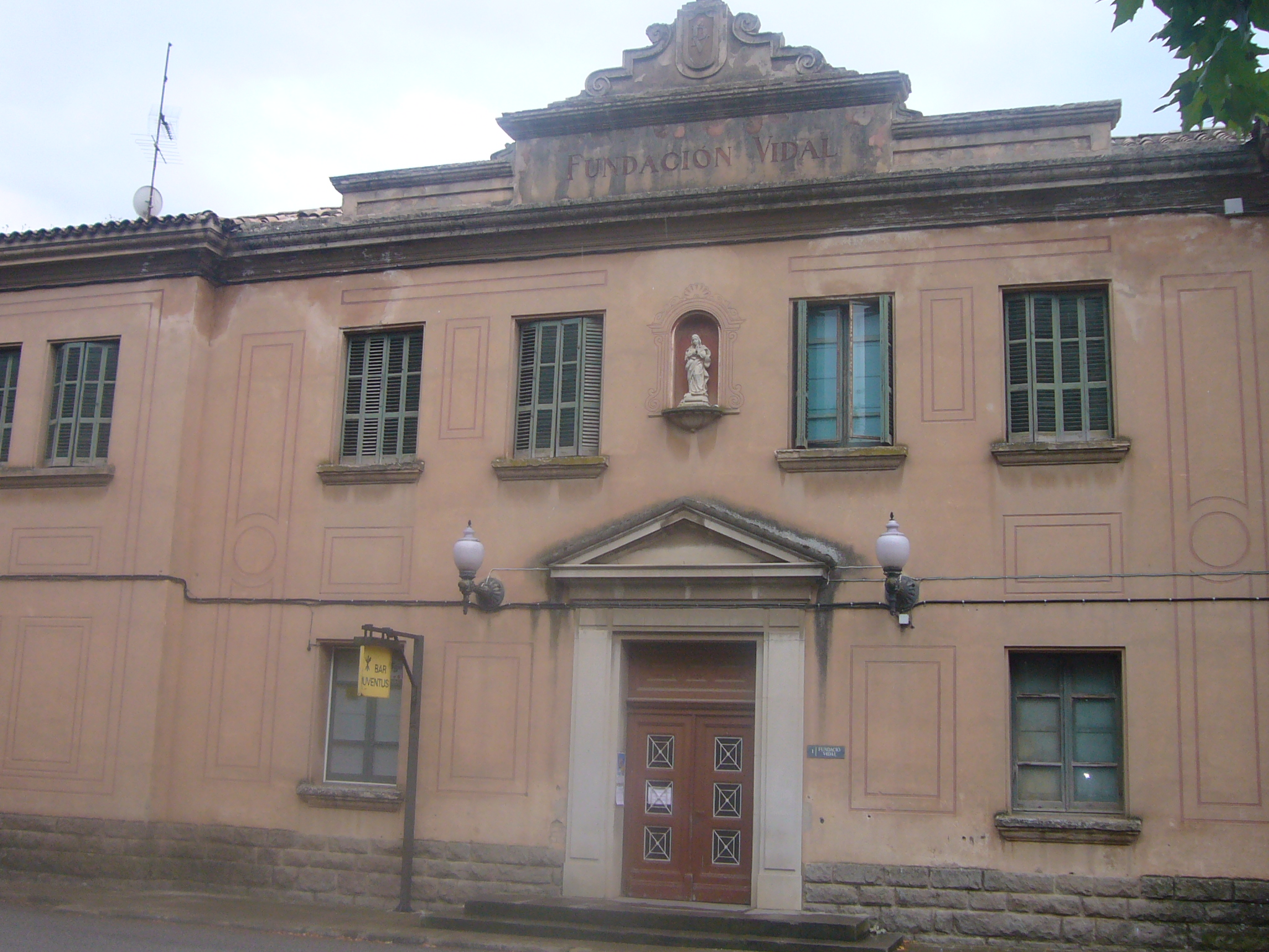 Fundació_de_la_Colònia_Vidal, Puig-reig, Catalonia